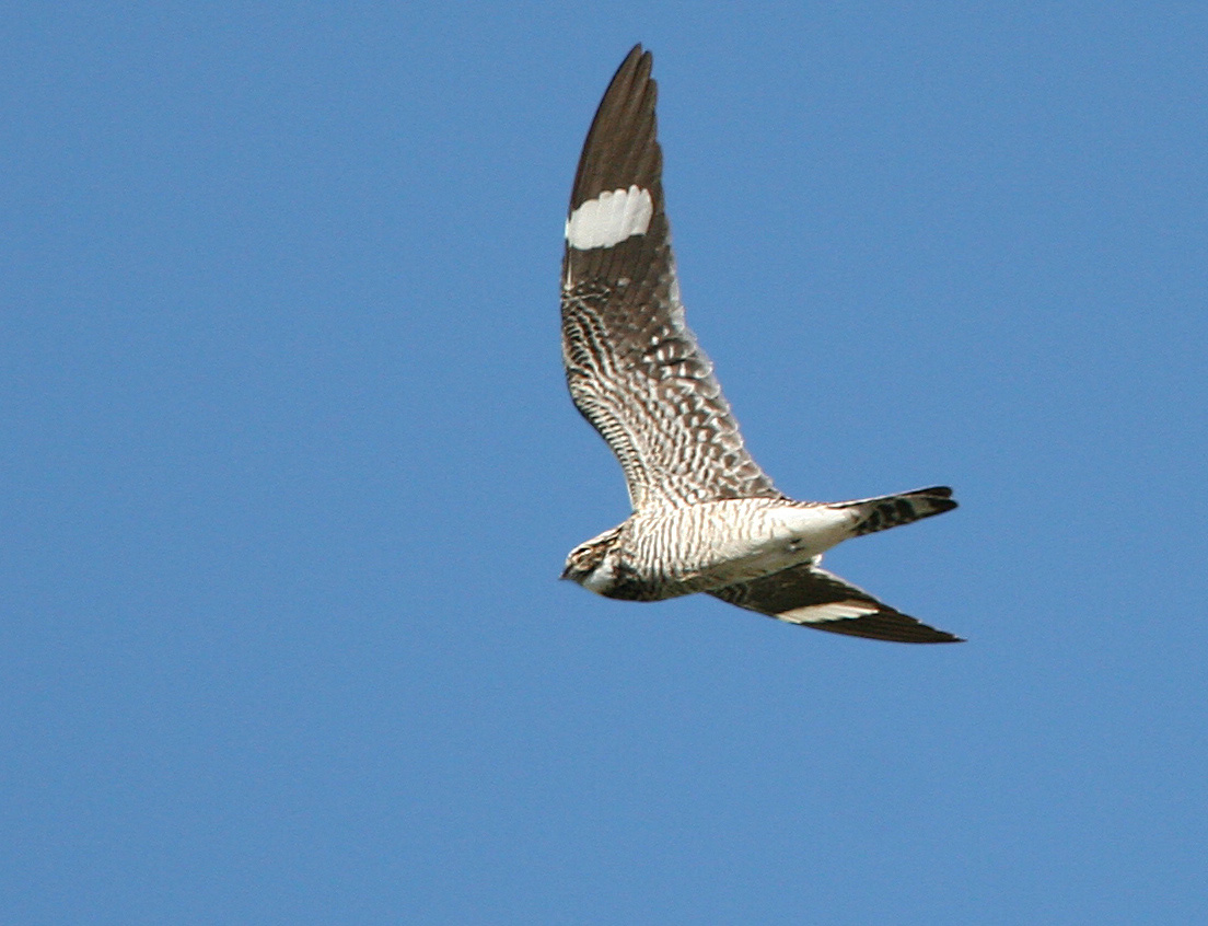 Common nighthawk (Chordeiles minor), Spring Creek, Nevada, USA